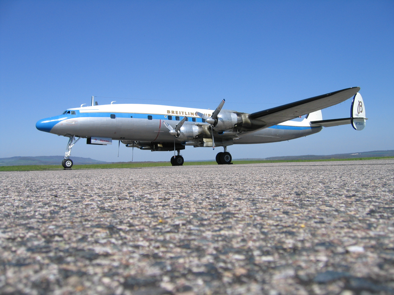 The Swiss Super-Constellation during Pilot Trainings in Epinal - Mirecourt, France